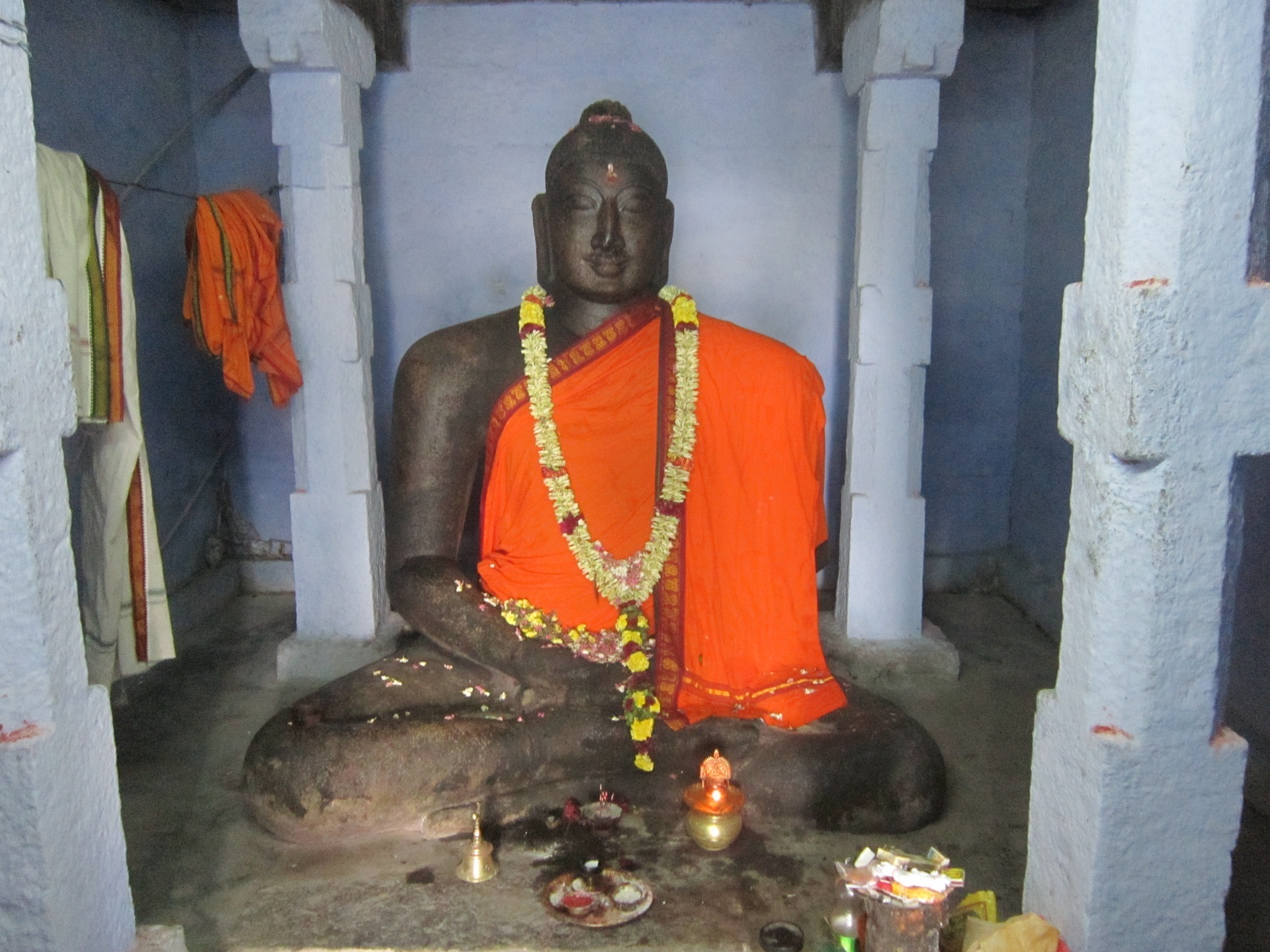 Statue